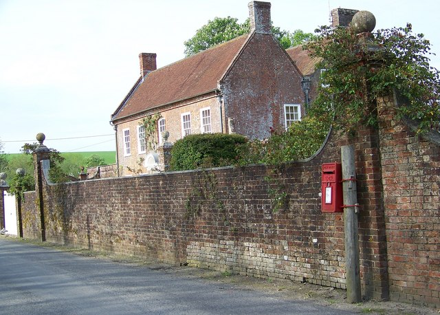 Village House, Alvediston This was the home of Sir Anthony Eden, Earl of Avon, and former prime minister. The post box is George VI.